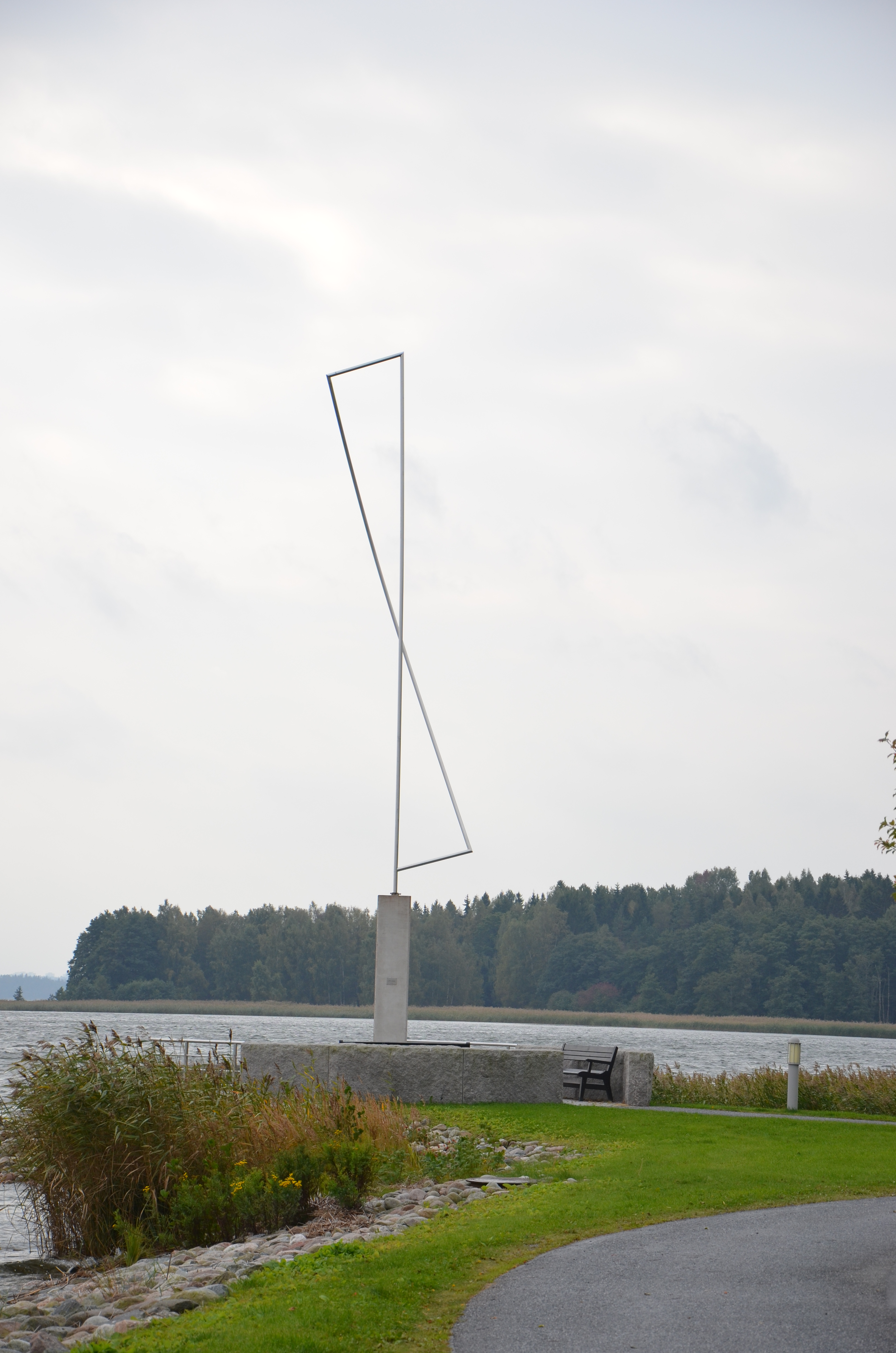 Veikko Keränens Upp i vind, rostfritt stål, 1996, strandpromenaden i Hägernäs, vid Sankta Catalinas gränd